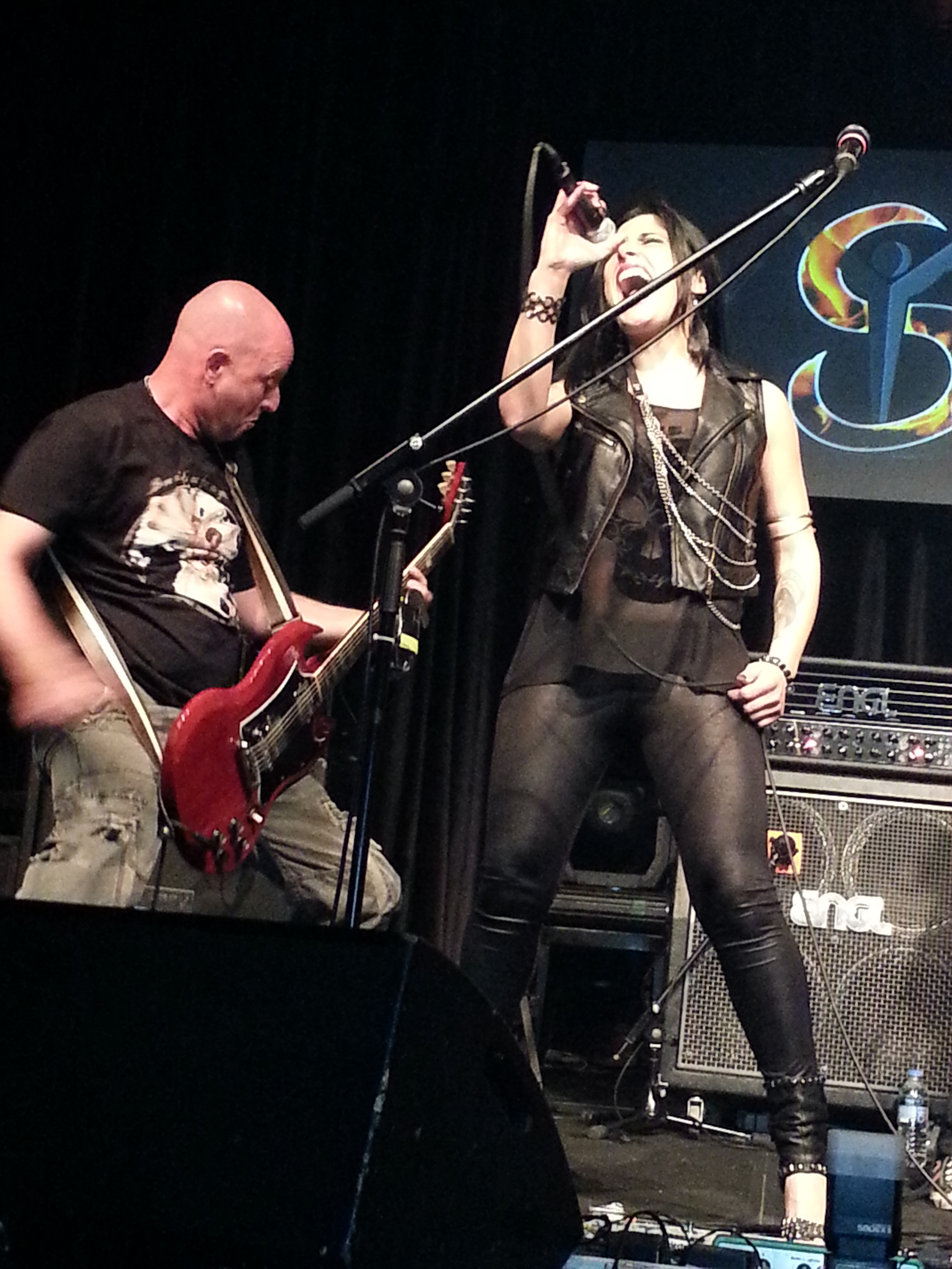 Tal Friedman and Mariangela Demurtas in Yossi Sassi's concert in Israel